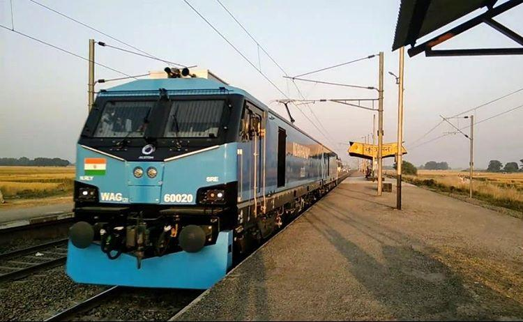 IT is a goods locomotive of Indian Railway.